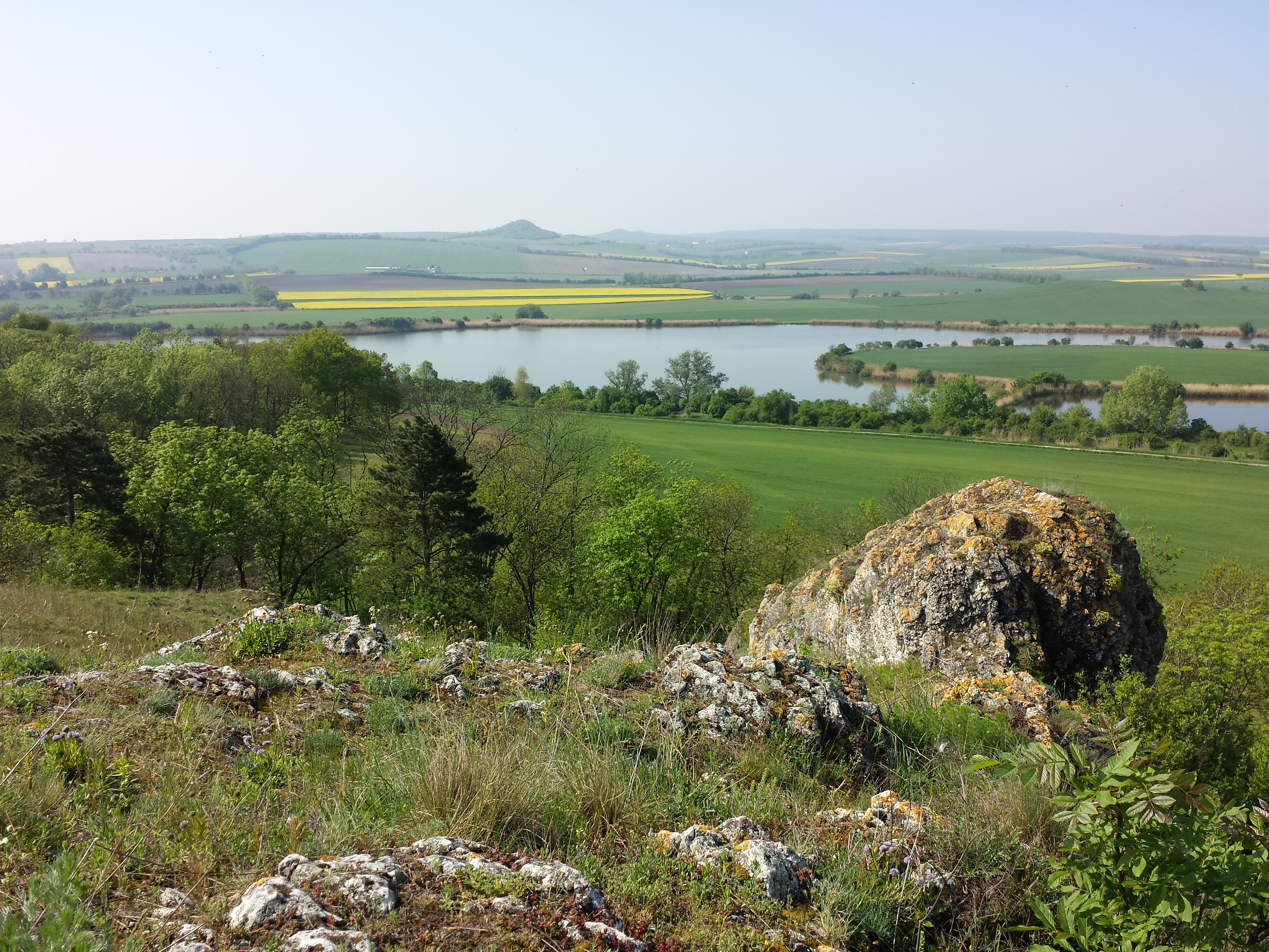 Nature reserve Šibeničník near Mikulov, Jihomoravský kraj, Czech Republic - ca. 230 m a.s.l. View from Šibeničník in a southward direction / Schweinbarth hill